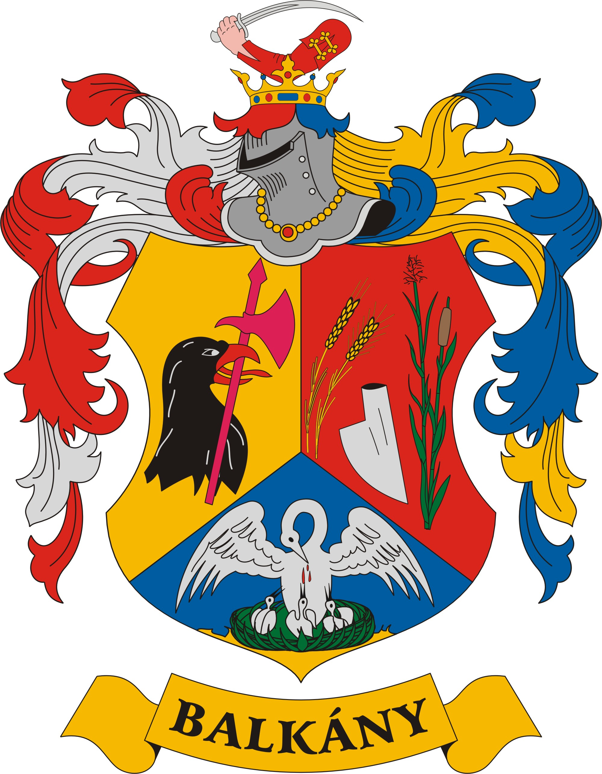 Coat of arms of Balkány, Hungary